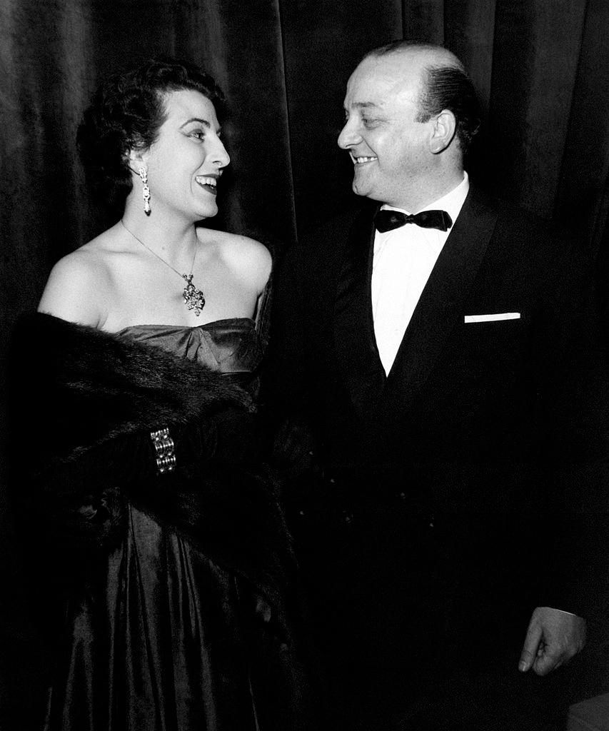 Italian singer Gianni Ravera smiling with Italian opera singer Giulietta Simionato at the 5th Sanremo Music Festival. Sanremo, January 1955